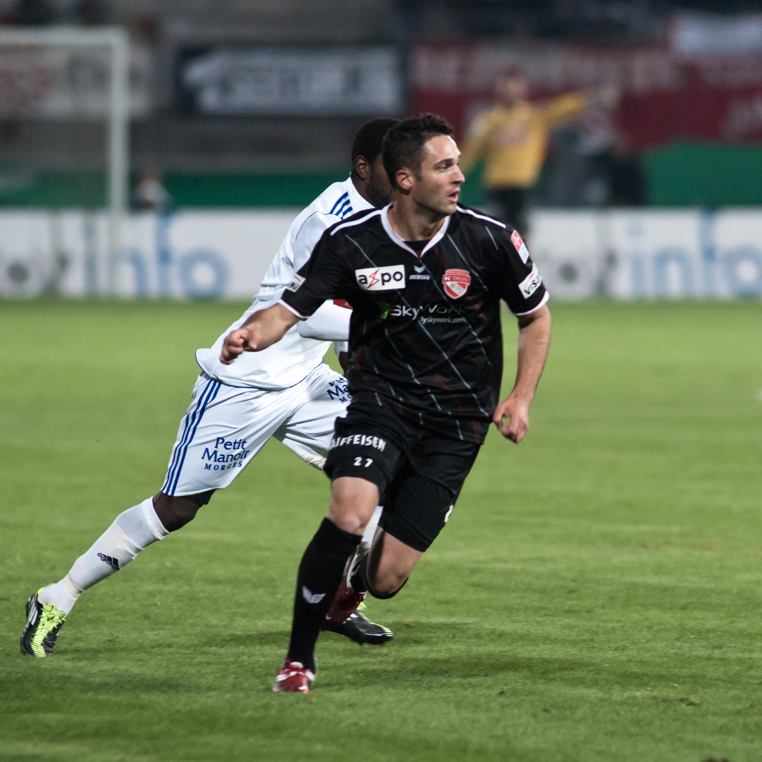 The making of this document was supported by Wikimedia CH. (Submit your project!) For all the files concerned, please see the category Supported by Wikimedia CH. Lausanne Sport vs. FC Thun - 22.10.2011